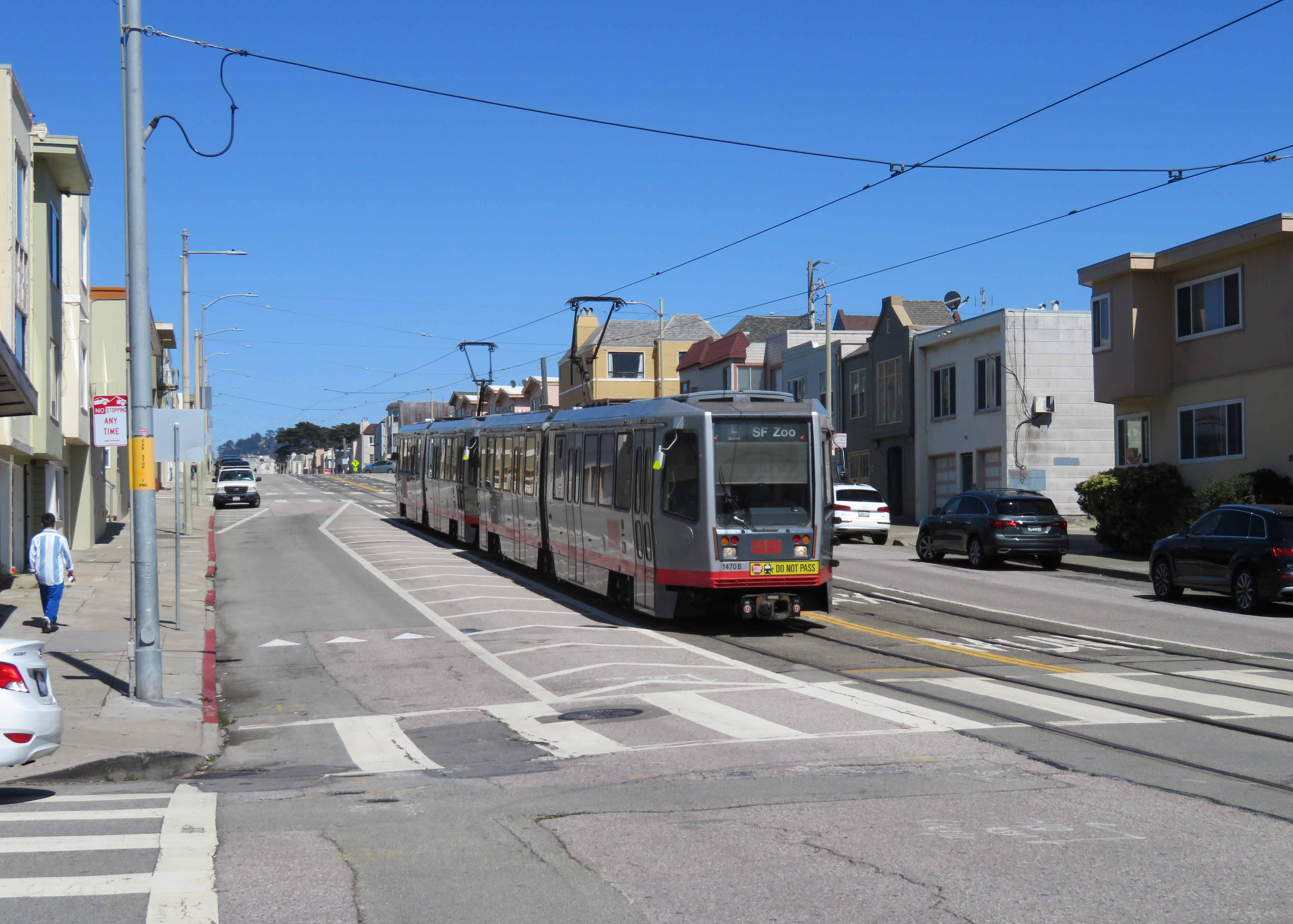 Outbound train at Taraval and 44th Avenue in June 2018